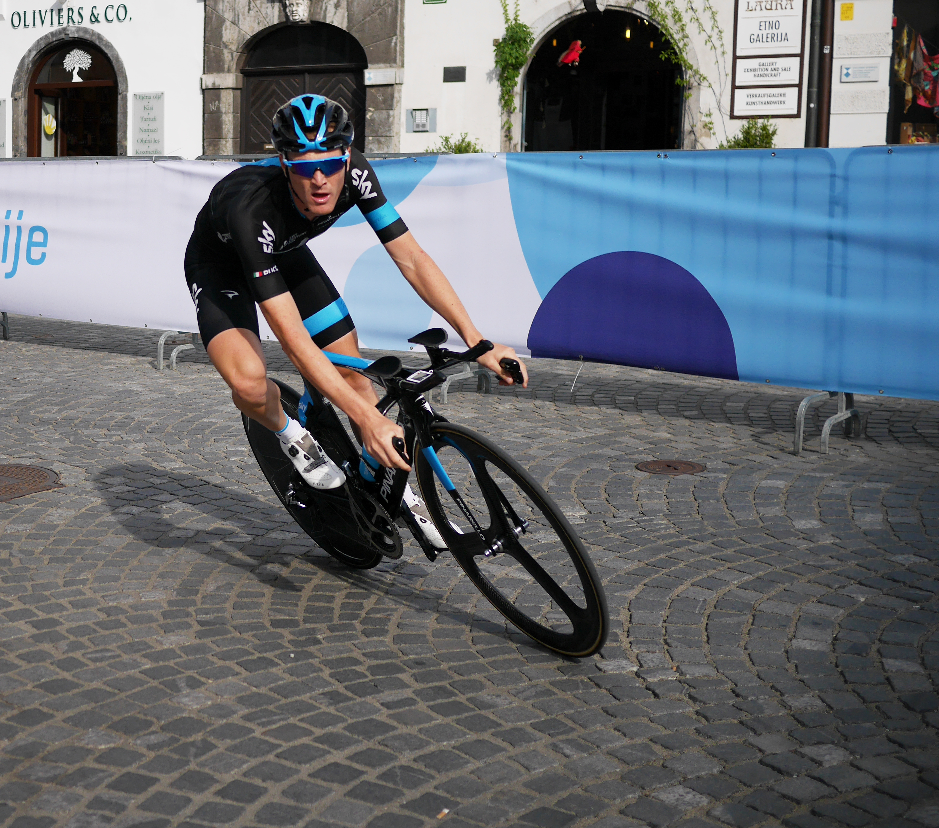 Salvatore Puccio from Sky team - 1st stage Tour of Slovenia 2015, Time trial on the streets of Ljubljana, Slovenia.